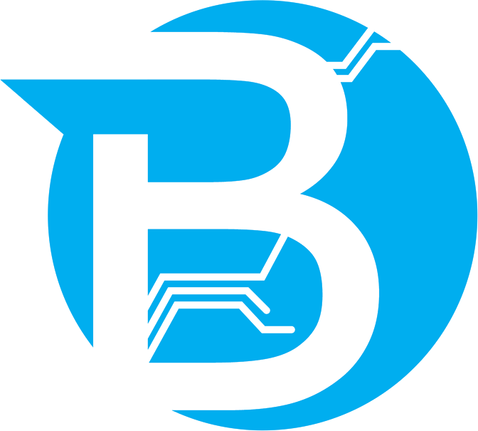 The Byte Club logo